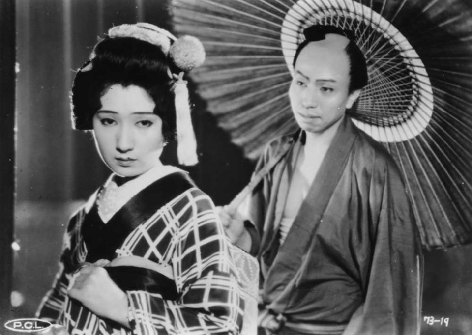 Takako Misaki and Kan'emon Nakamura in Ninjō kamifūsen (1937)